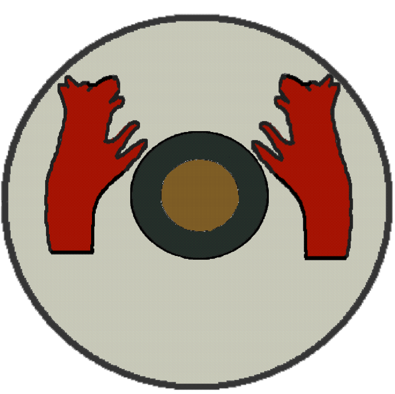 Shield pattern o.t. Equites Mauri feroces, listed as the eighth of the vexillationes comitatenses in the Magister Equitum's cavalry roster; it is assigned to the Magister Peditum's Italian command.